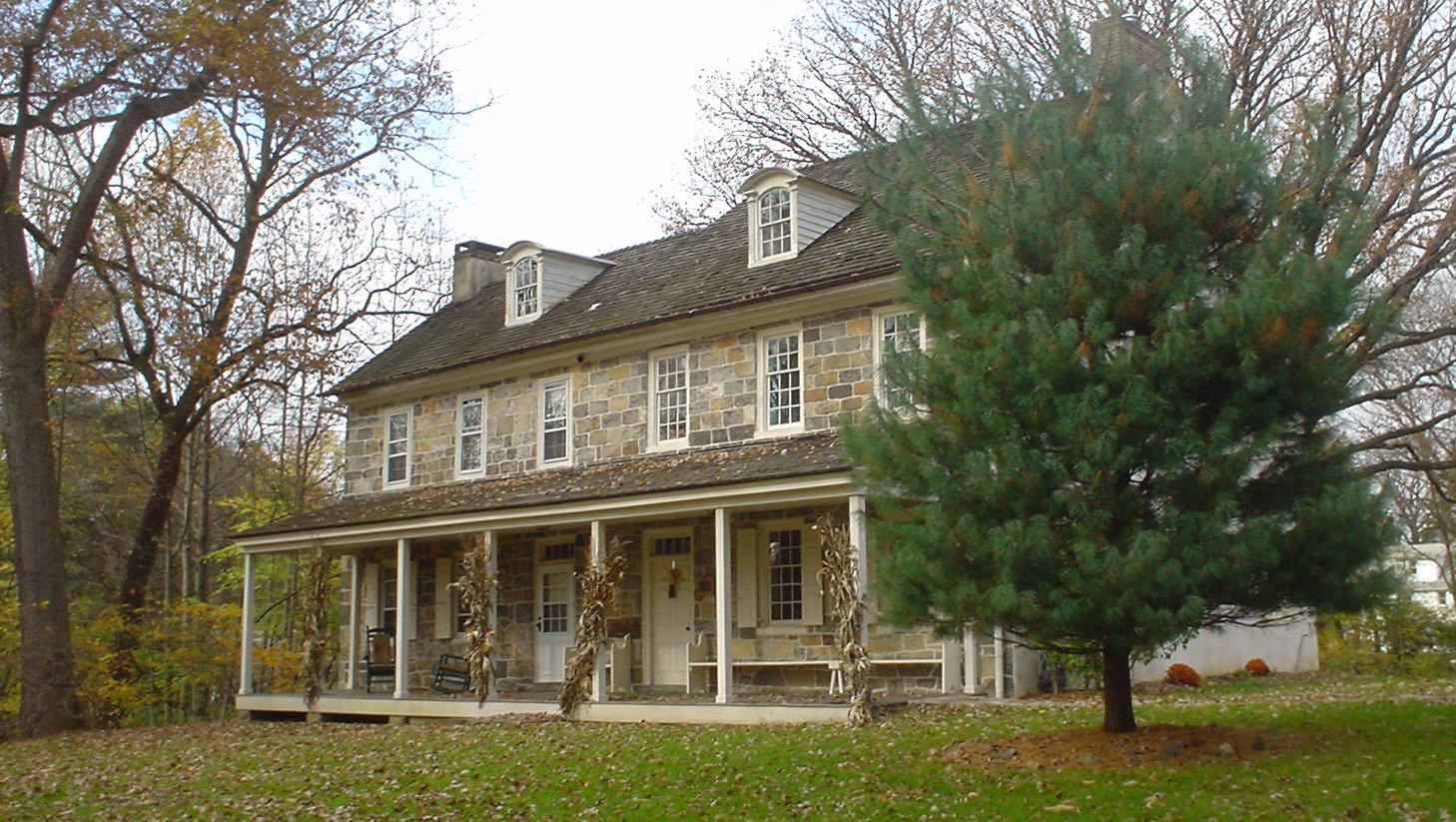 Colenbrook Farm, home of Dr. George Smith, In Delaware Co.,PA. In NRHP.